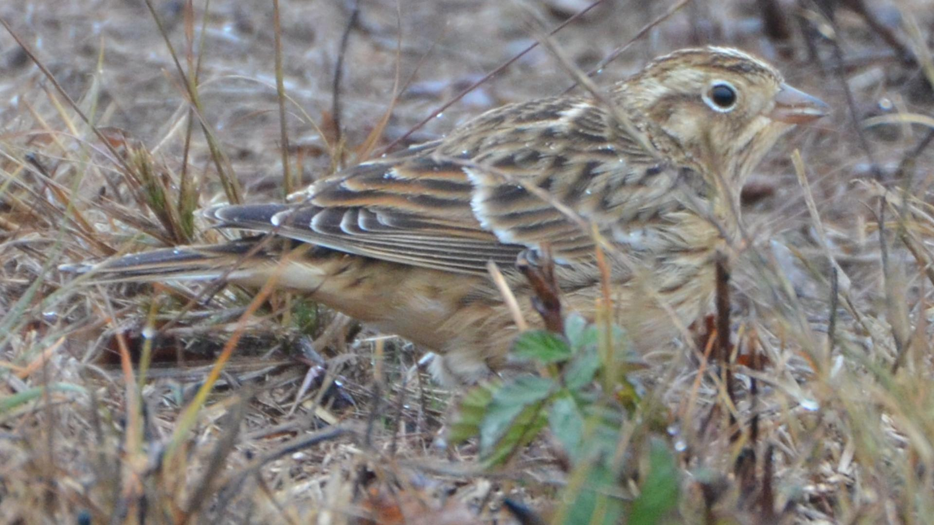 Calcarius pictus, Hi Lonesome Prairie Conservation Area in Benton County Missouri.